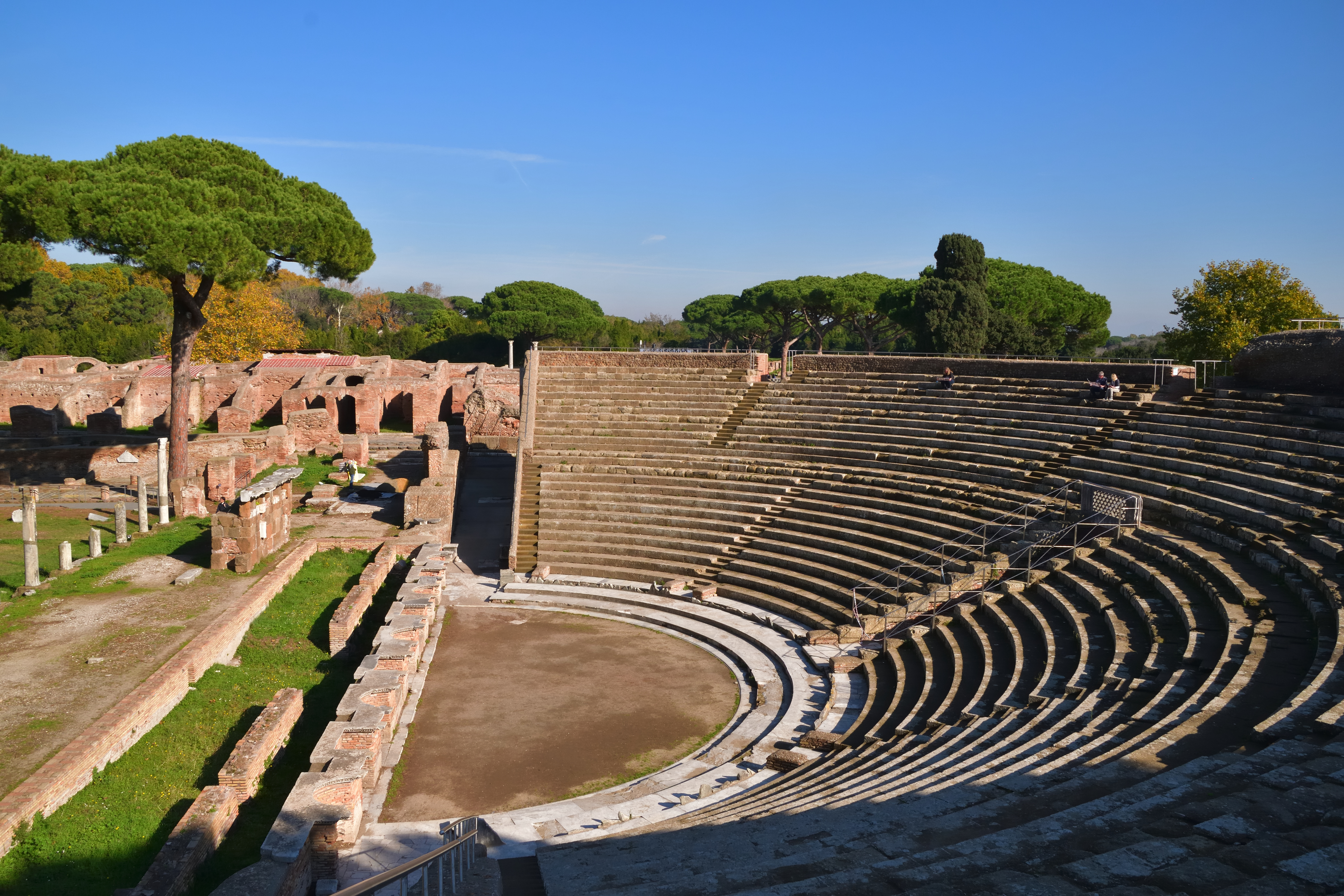 The Theater in Ostia Antica